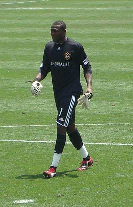 Donovan Ricketts, association football goalkeeper for the Los Angeles Galaxy and the Jamaican national team